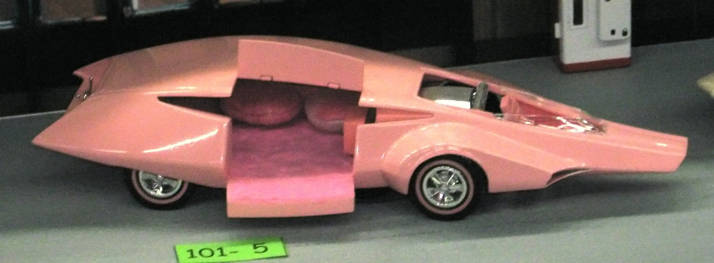 Panthermobile (Pink Panther's car) kit on display at Draggins 50h Anniversary show, 3 April 2010